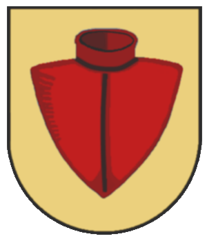 Coat of arms of Pforzheim Converted into PNG format and transparency added by Enslin.